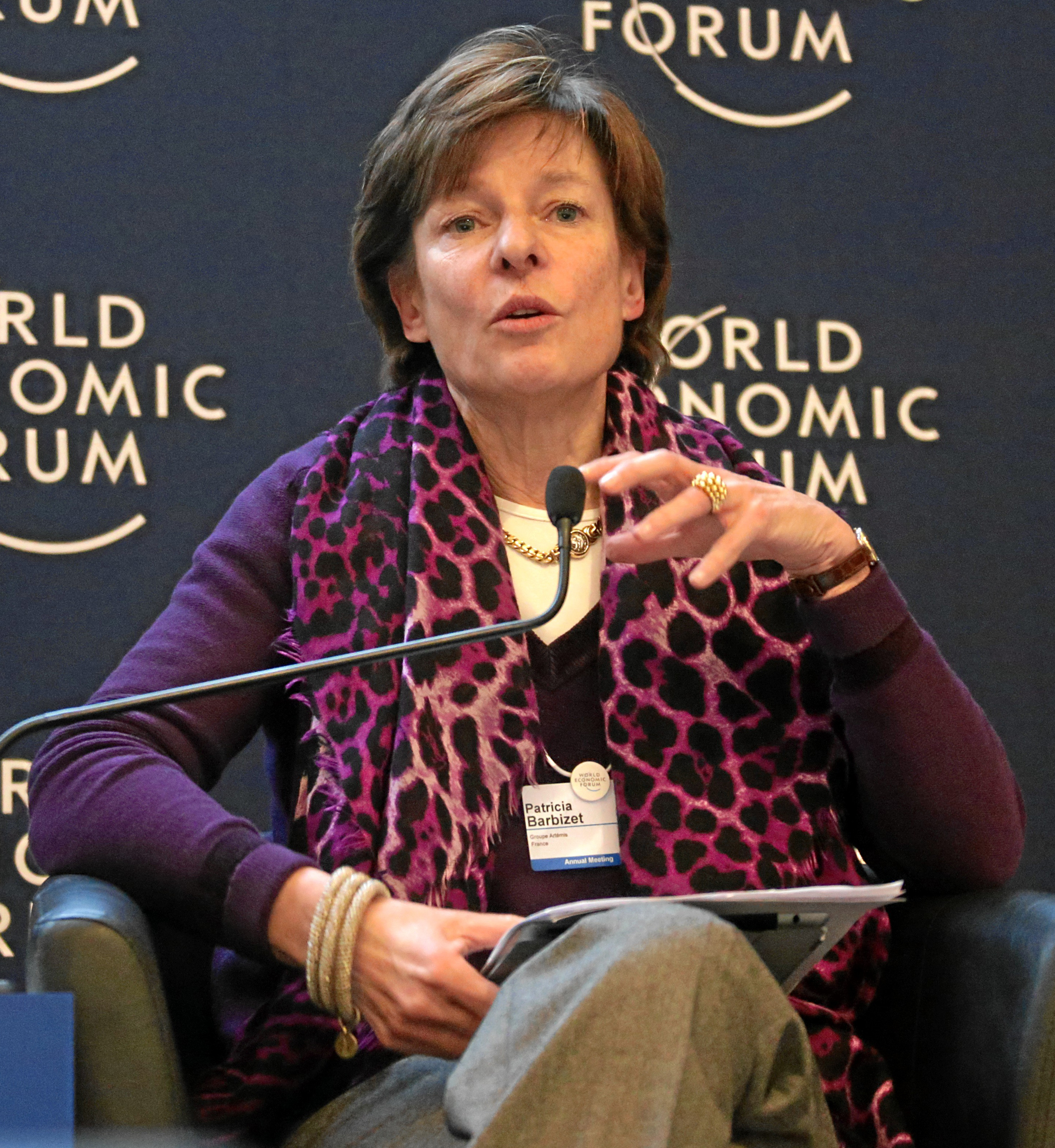 DAVOS/SWITZERLAND, 23JAN13 - Patricia Barbizet, Chief Executive Officer, Artemis, France speaks during the interactive session 'The Europe Context - Building Resilient Institutions' at the Annual Meeting 2013 of the World Economic Forum in Davos, Switzerland, January 23, 2013.. . Copyright by World Economic Forum. . Remy Steinegger